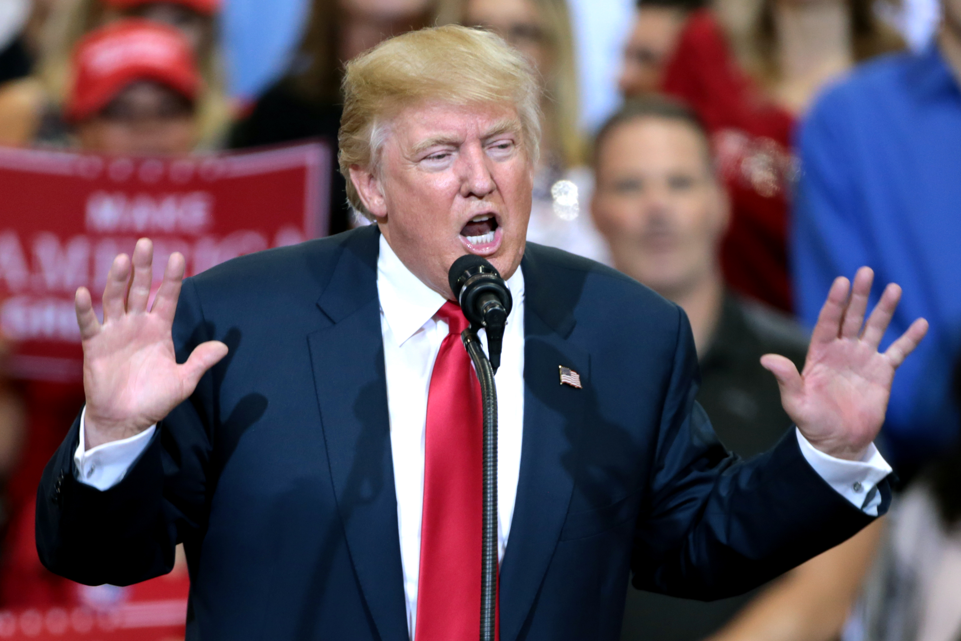 Donald Trump speaking with supporters at a campaign rally at the Phoenix Convention Center in Phoenix, Arizona.